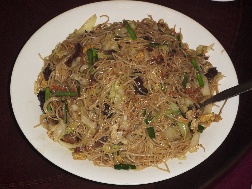 Fried rice vermicelli of restaurant in Xiamen City, Fujian